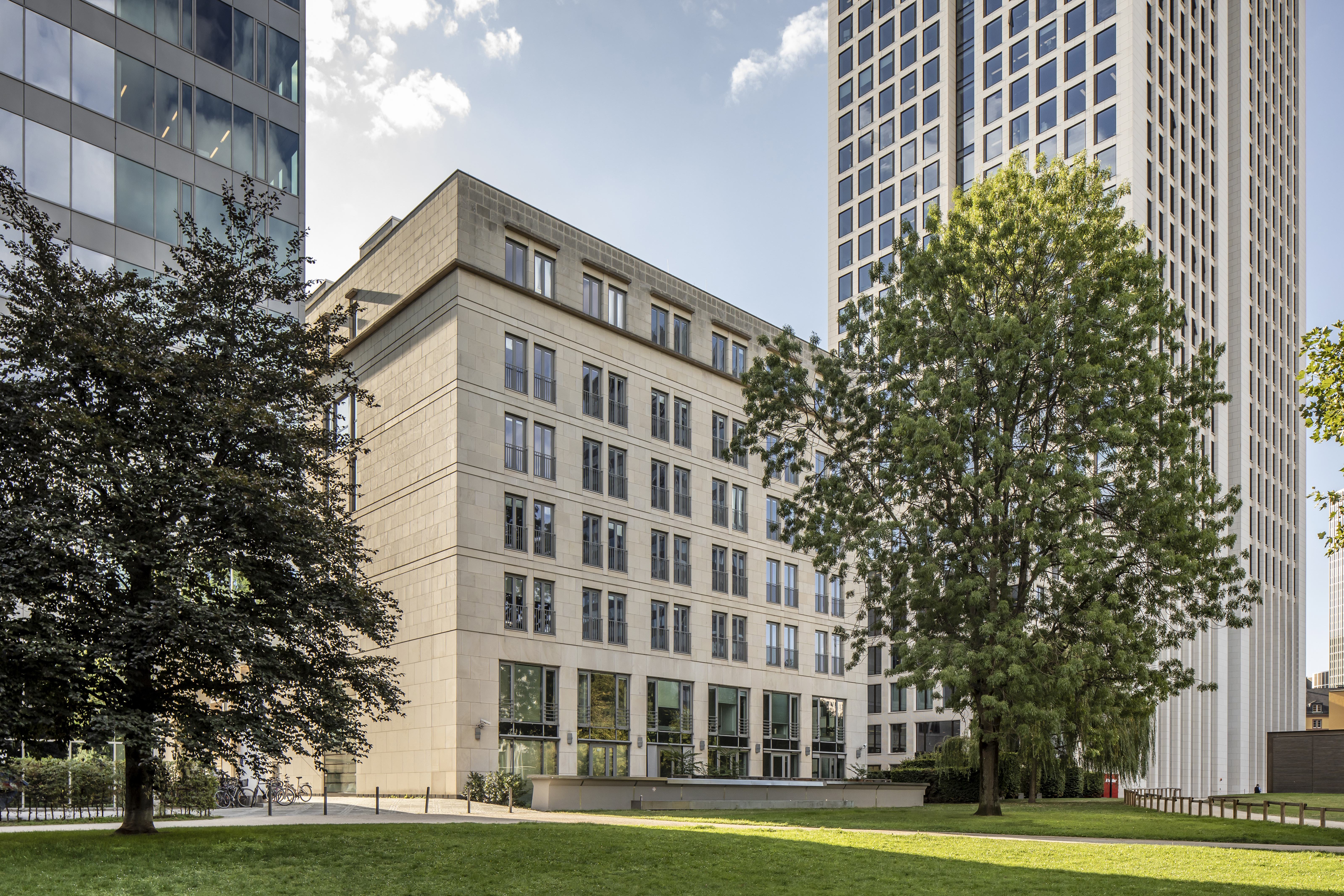 TOG's building in Frankfurt, Oper46